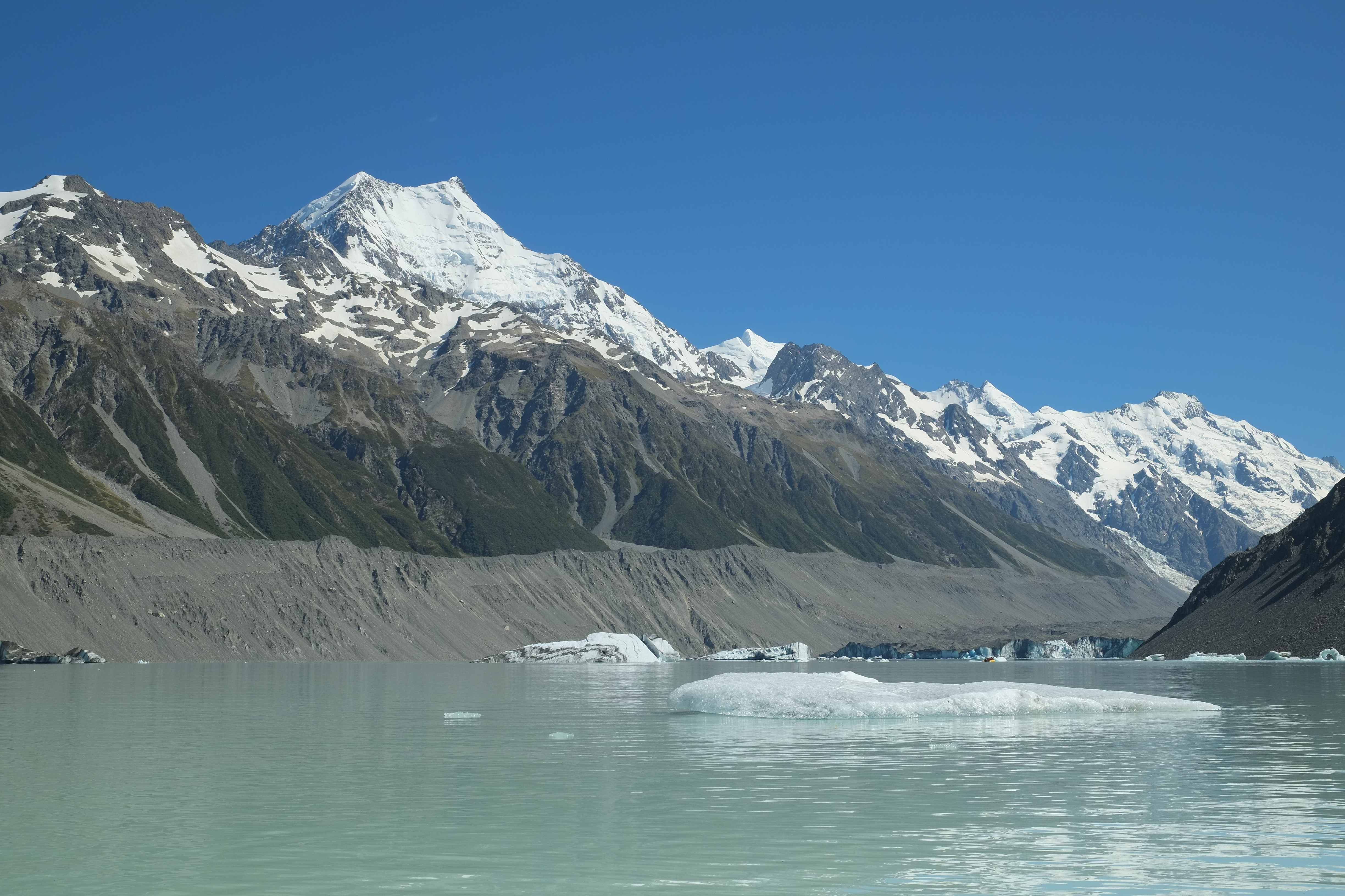 Icebergs floating in Tasman Glacier Lake; Aoraki / Mount Cook in the background